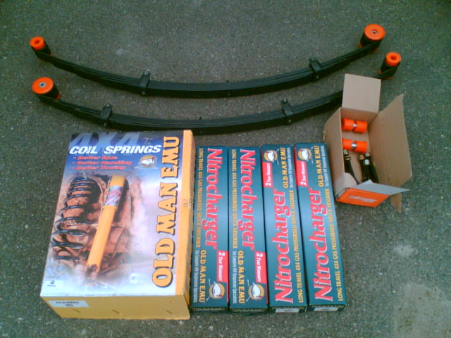 Complete OME kit for raising the XJ by approx 3"